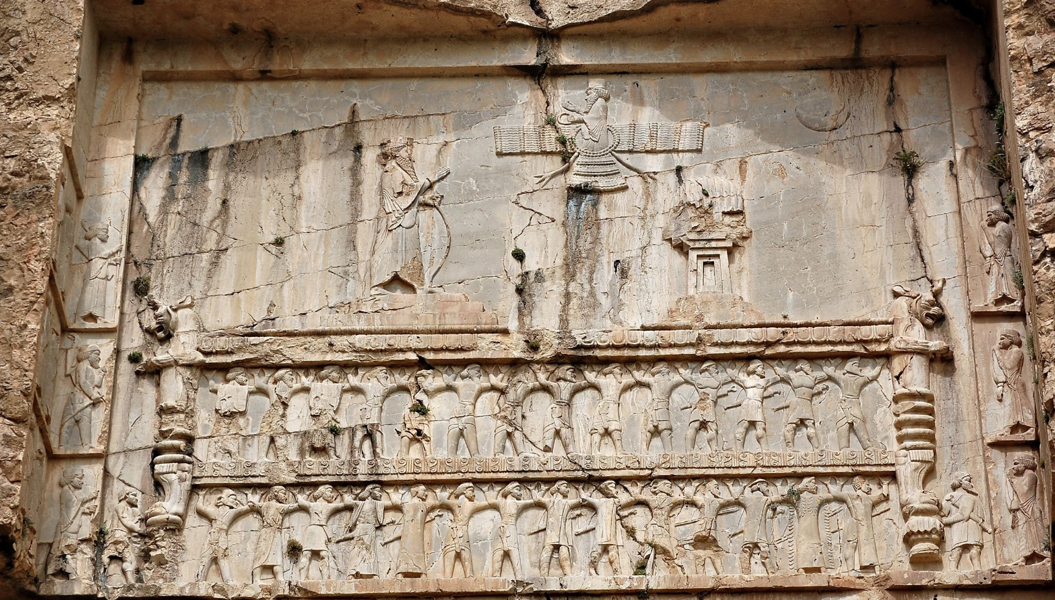 Xerxes I tomb top